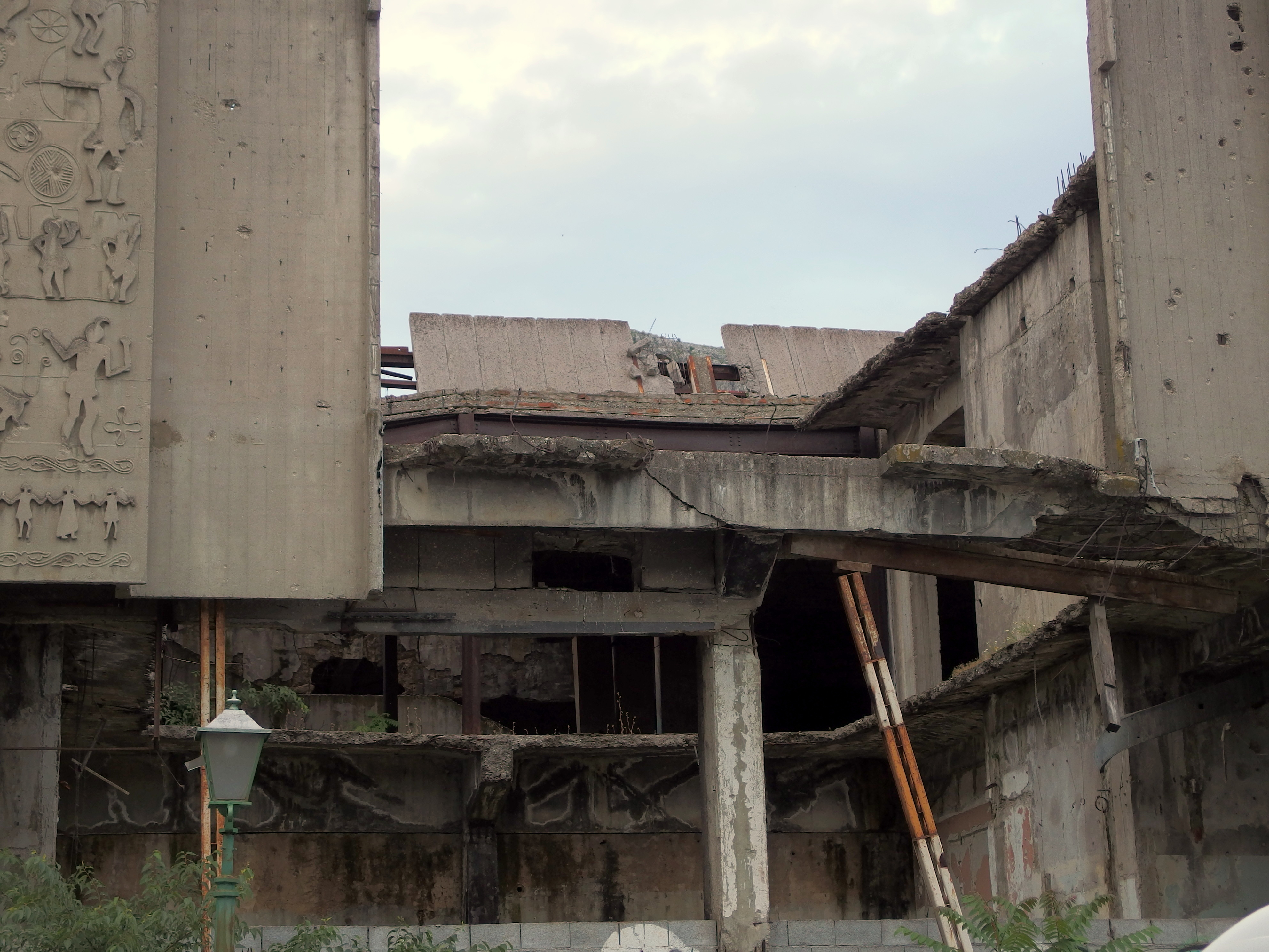 2013-06-06 in Mostar.